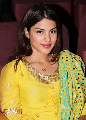 Rhea Chakraborty graces the 29th West Zone Central Revenue Cultural Meet.